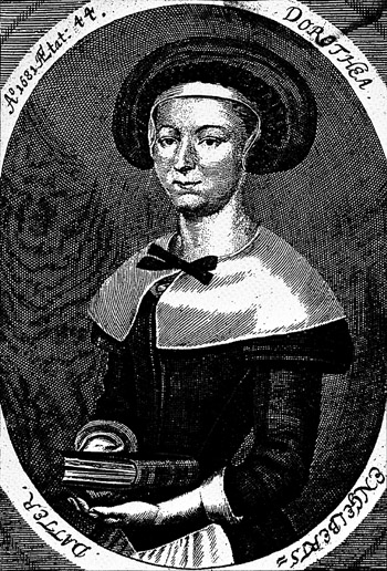 Dorothe Engelbretsdotter (1634-1716)